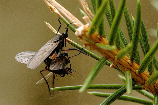 Picture taken in Commanster, Belgian High Ardennes . Species: Empis bistortae couple